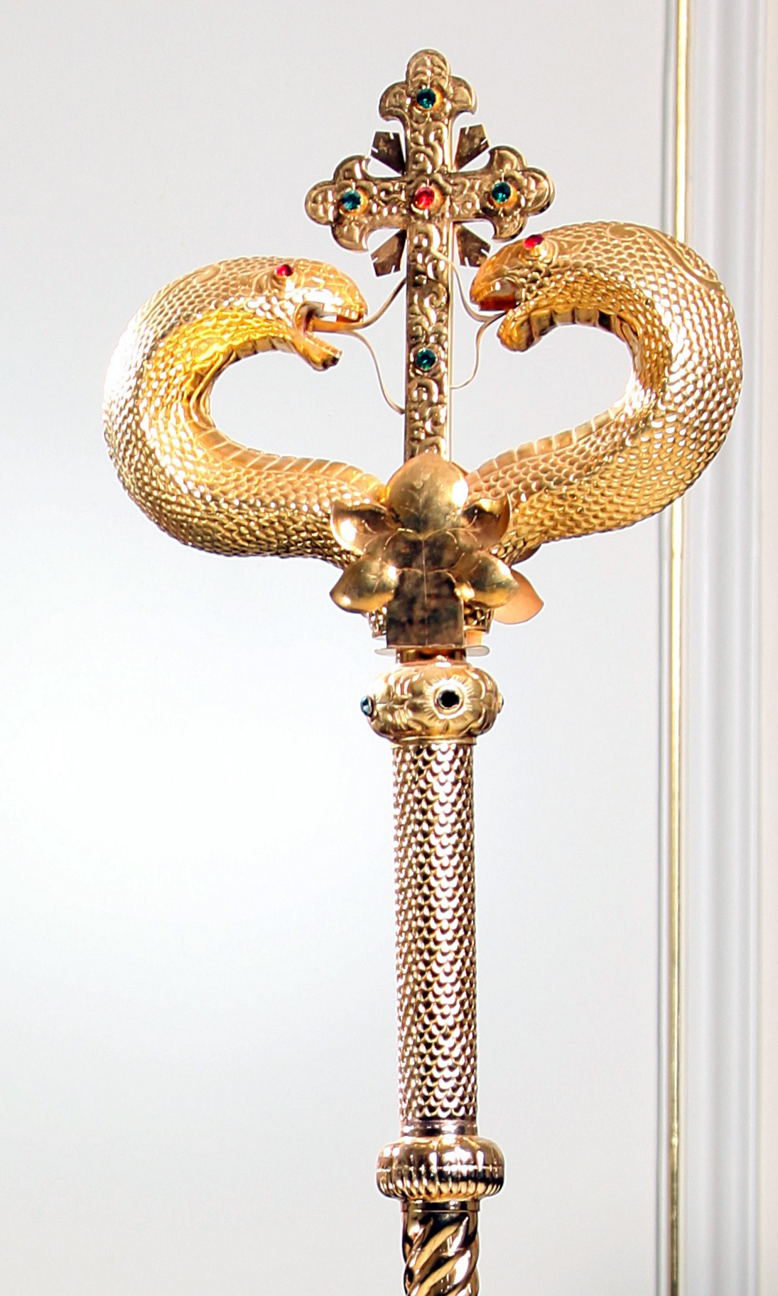 Crosier of the Syriac Orthodox Bishop which represent the staff of Moses